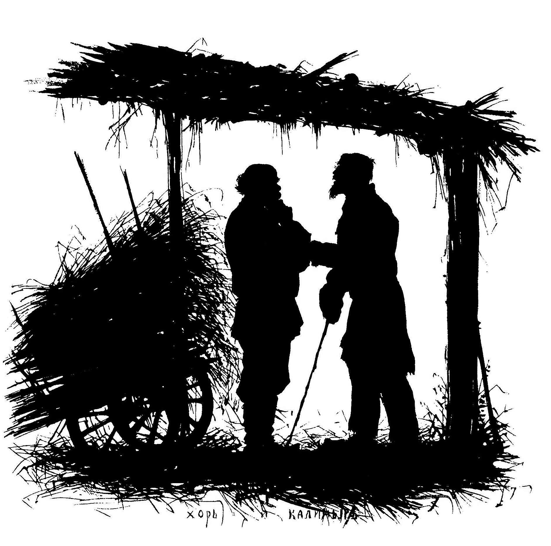 The illustration for the short story Khor and Kalinych by Ivan Turgenev (from the collection A Sportsman's Sketches). “...Outside the village a man of about forty over-took us. He was tall and thin, with a small and erect head. It was Kalinitch... ...I looked with curiosity at the man [Khor — Wikimedia Commons]. The cut of his face recalled Socrates; there was the same high, knobby forehead, the same little eyes, the same snub nose... ...The two friends were not at all alike. Khor was a positive, practical man, with a head for management, a rationalist; Kalinitch, on the other hand, belonged to the order of idealists and dreamers, of romantic and enthusiastic spirits. Khor had a grasp of actuality — that is to say, he looked ahead, was saving a little money, kept on good terms with his master and the other authorities; Kalinitch wore shoes of bast, and lived from hand to mouth...” —Ivan Turgenev. Khor and Kalinych (translation by Constance Garnett)